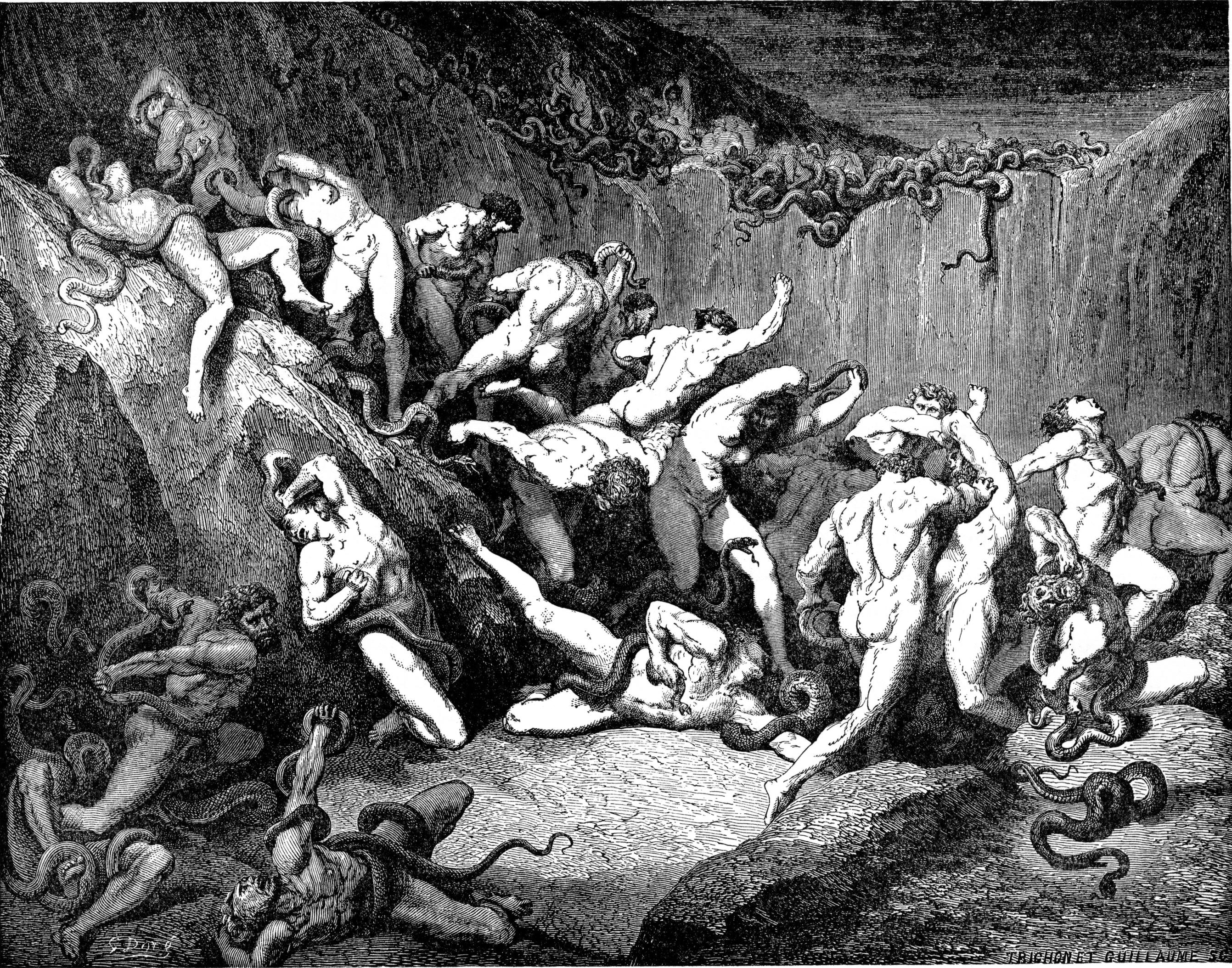 High resolution scan of engraving by Gustave Doré illustrating Canto XXIV of Divine Comedy, Inferno, by Dante Alighieri. Caption: The Thieves tortured by Serpents